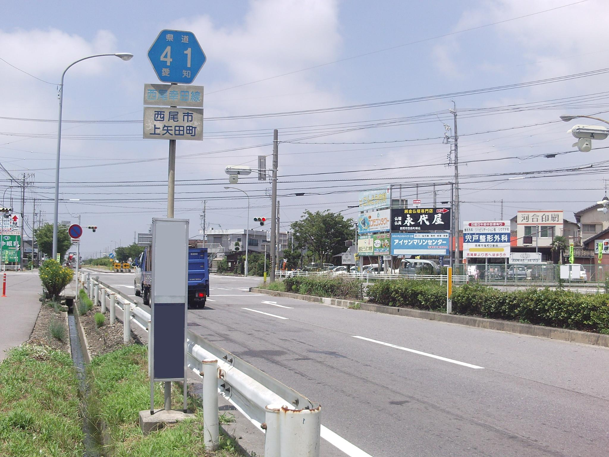 The Aichi Prefectural Road Route 41 in Kamiyatacho, Nishio City